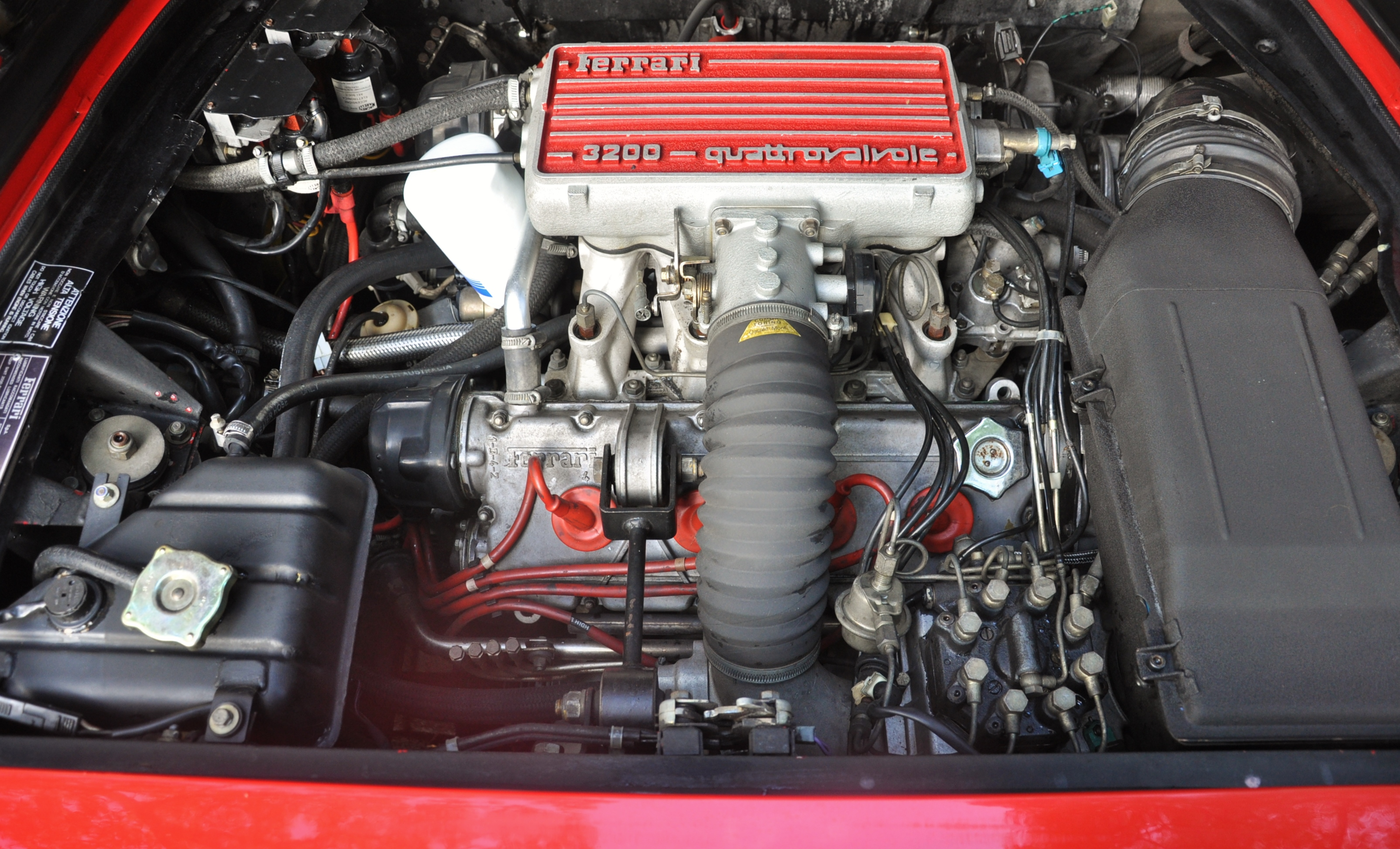 Ferrari Mondial 3.2 Coupe 1988, engine bay view